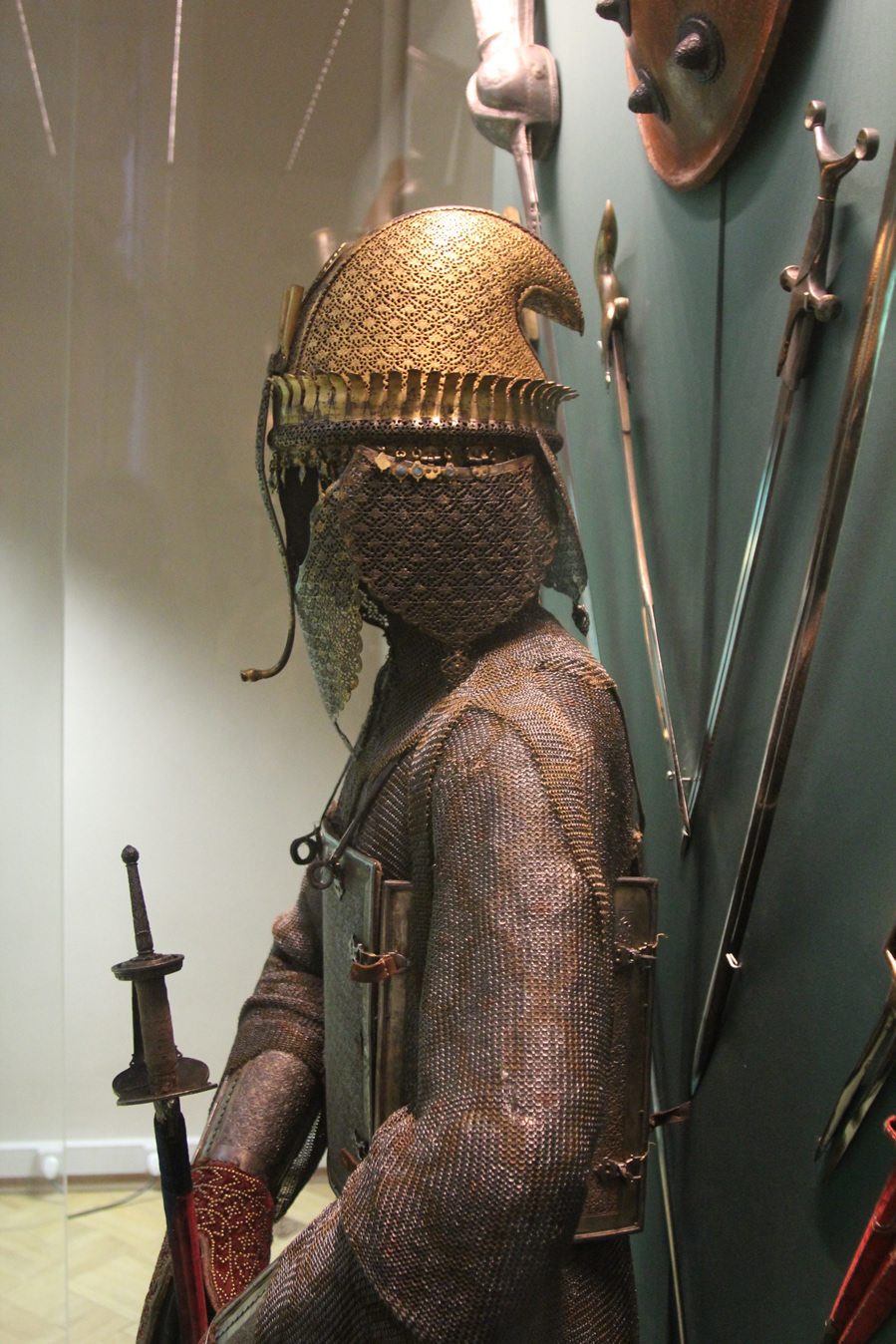 Maratha Helmet and Armor from Hermitage Museum, St Petersburg, Russia